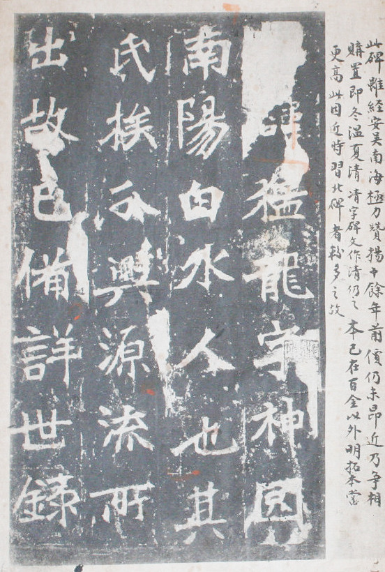 Zhang Meng Long bei rubbing